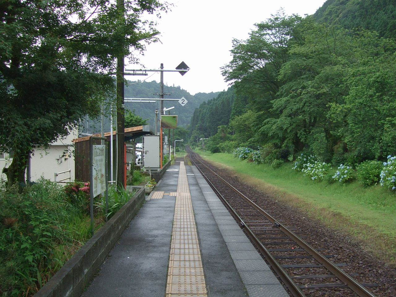 JR Kyushu Kyudai Line Bungo-Nakagawa Station, Hita City, Oita, Japan.